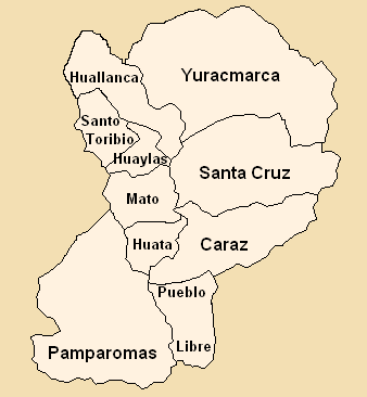 Districts of the Huaylas province in Ancash region in Peru (Map)